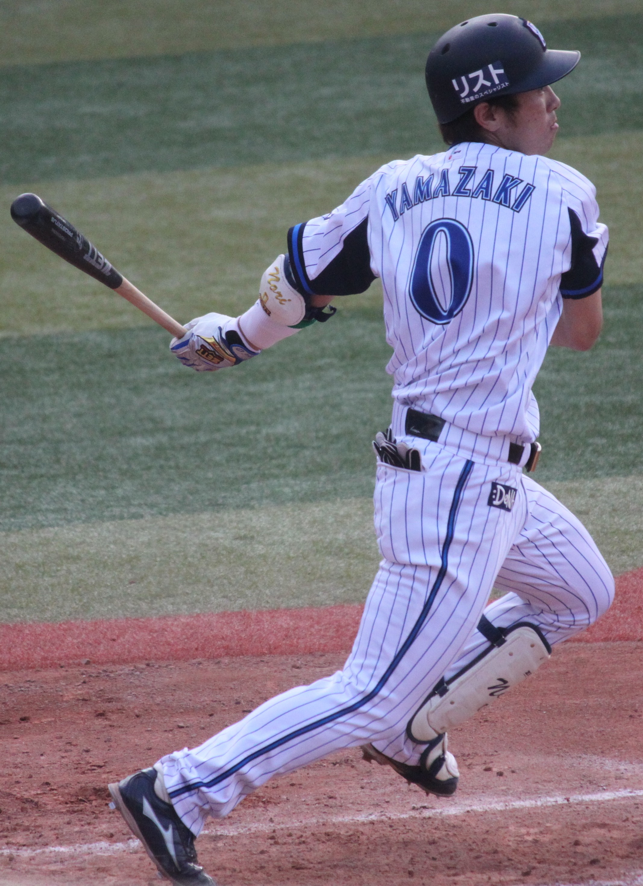 Noriharu Yamazaki, infielder of the Yokohama DeNA BayStars, at Yokohama Stadium.